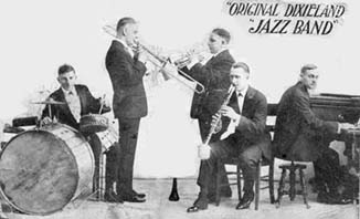 Original Dixieland Jass Band. Taken from original 1918 promotional postcard while the band was playing at Reisenweber's Cafe in New York City. Shown are (left to right): Tony Sbarbaro (aka Tony Spargo) on drums; Edwin "Daddy" Edwards on trombone; D. James "Nick" LaRocca on cornet; Larry Shields on clarinet Henry Ragas on piano.